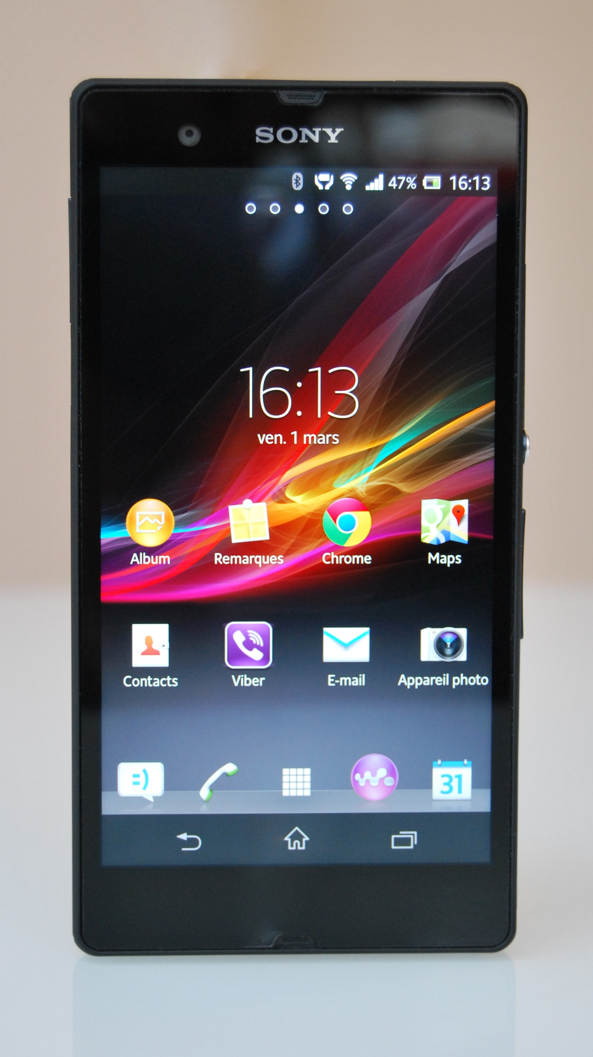 Sony Xperia Z C6603 black